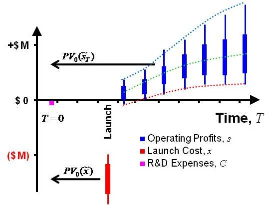 Datar Mathews Real Option Method Wikipedia Fig. 1 Typical Project Cash Flow with Uncertainty